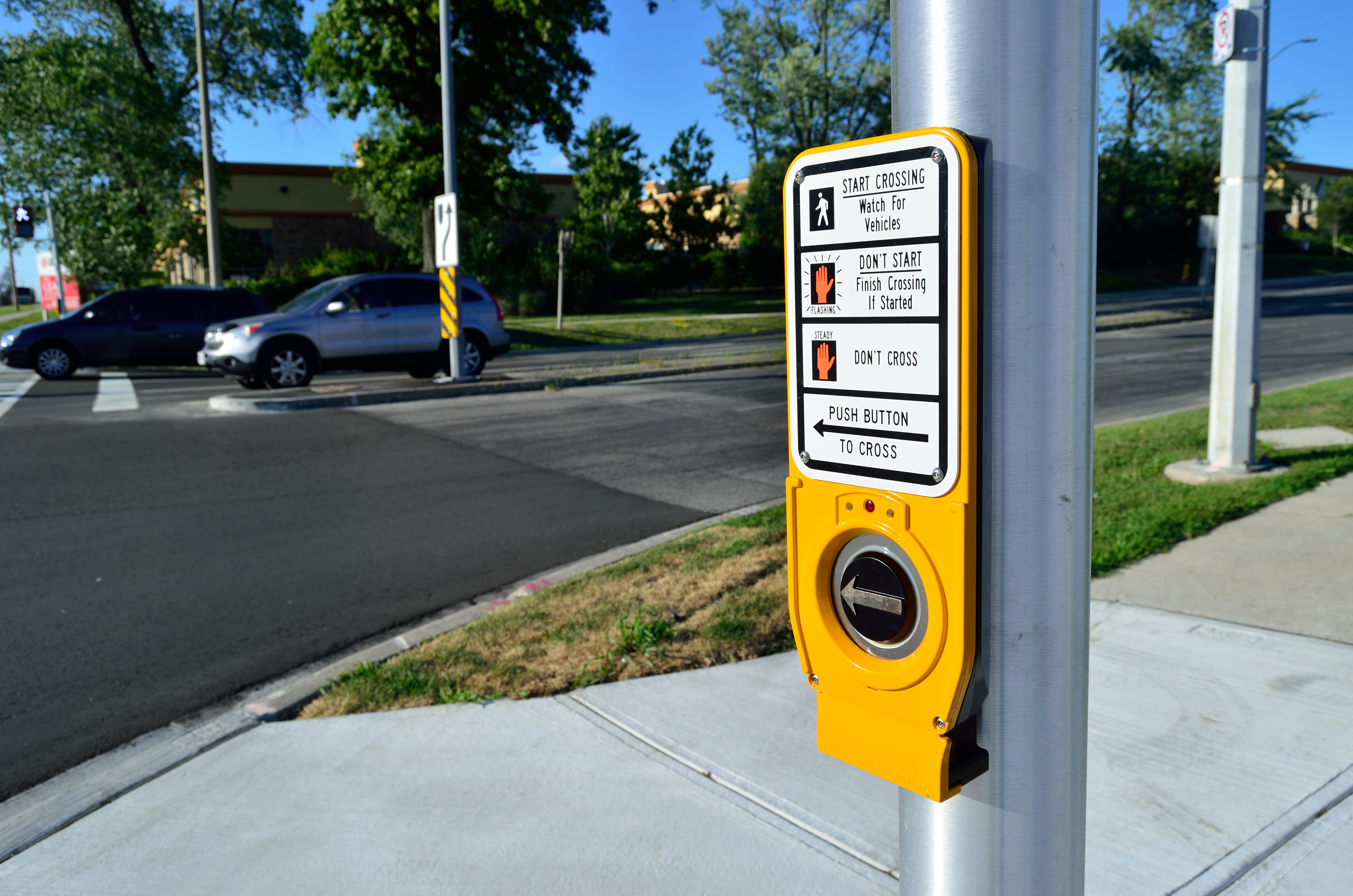 A pedestrian signal push button.